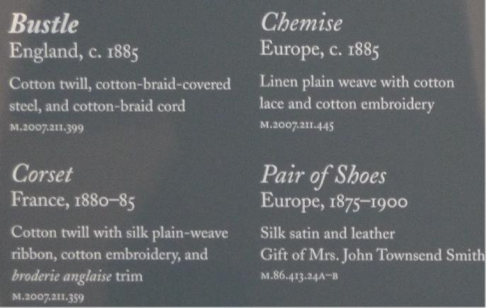 From the exhibition "Fashioning Fashion: European Dress in Detail, 1700-1915" at the Los Angeles County Museum of Art. On view from October 2, 2010 - March 6, 2011.